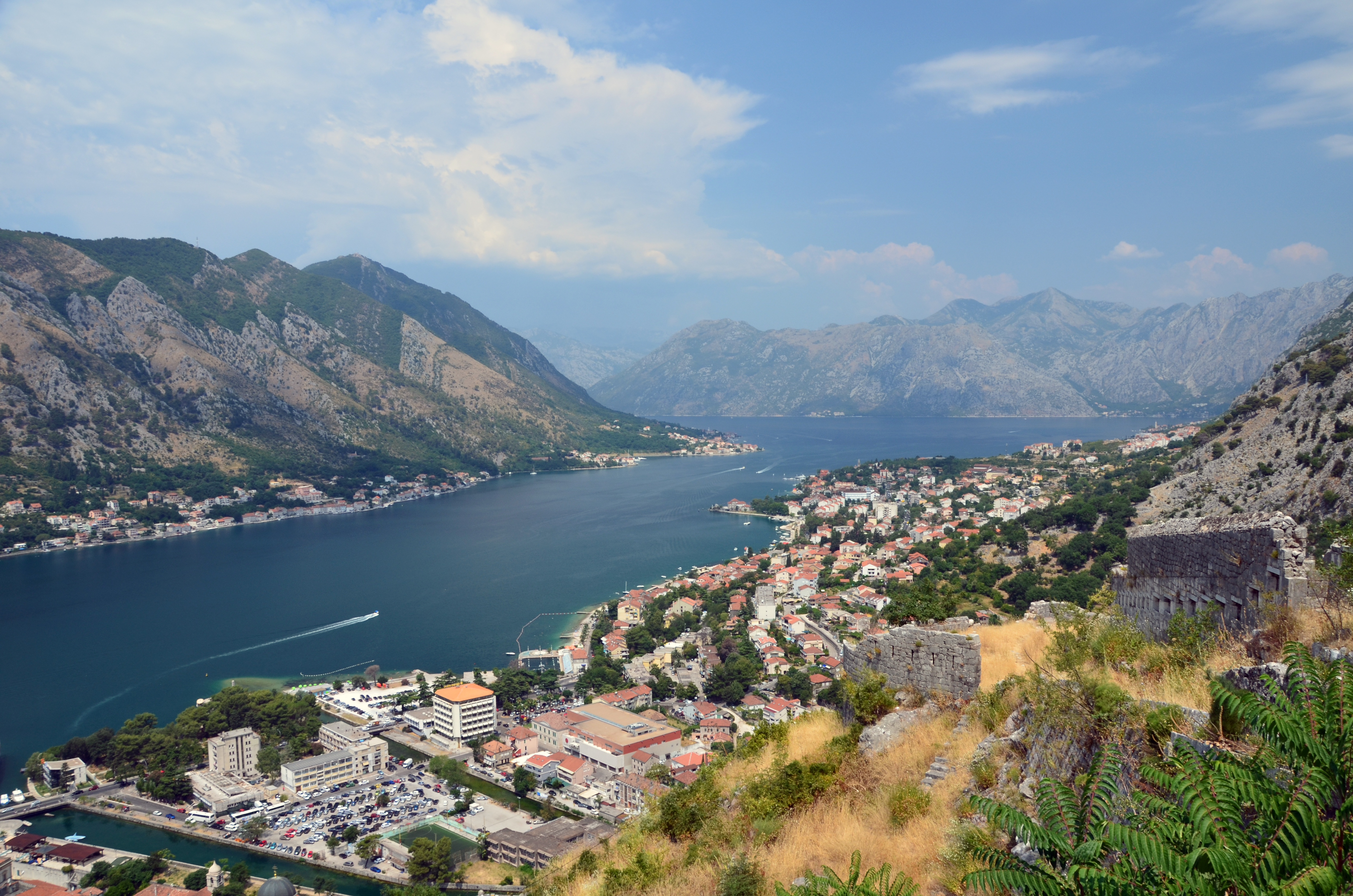 The bay of Kotor (Montenegro) viewed from the path climbing to St-John's castle.